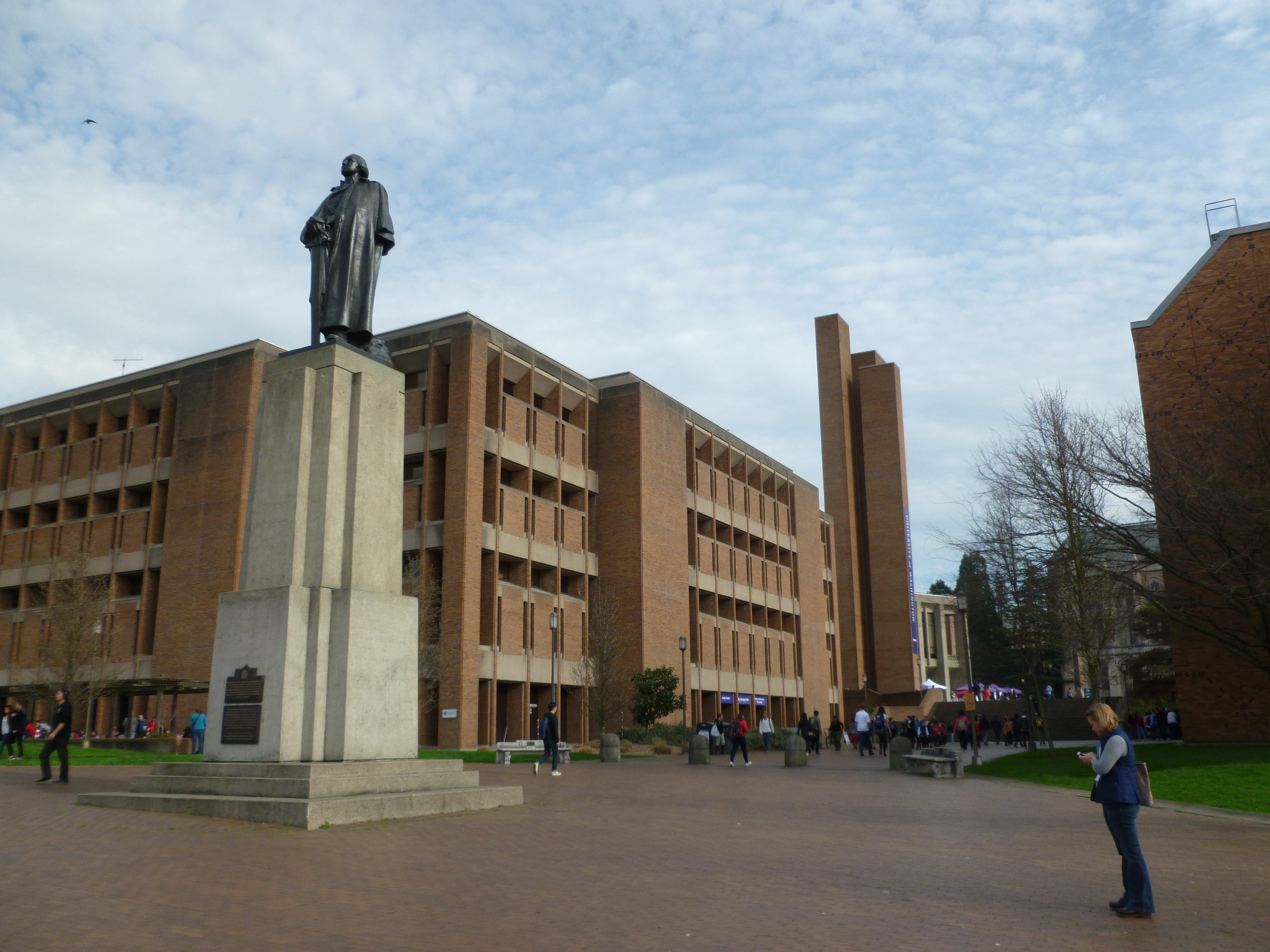 University of Washington, February 2014